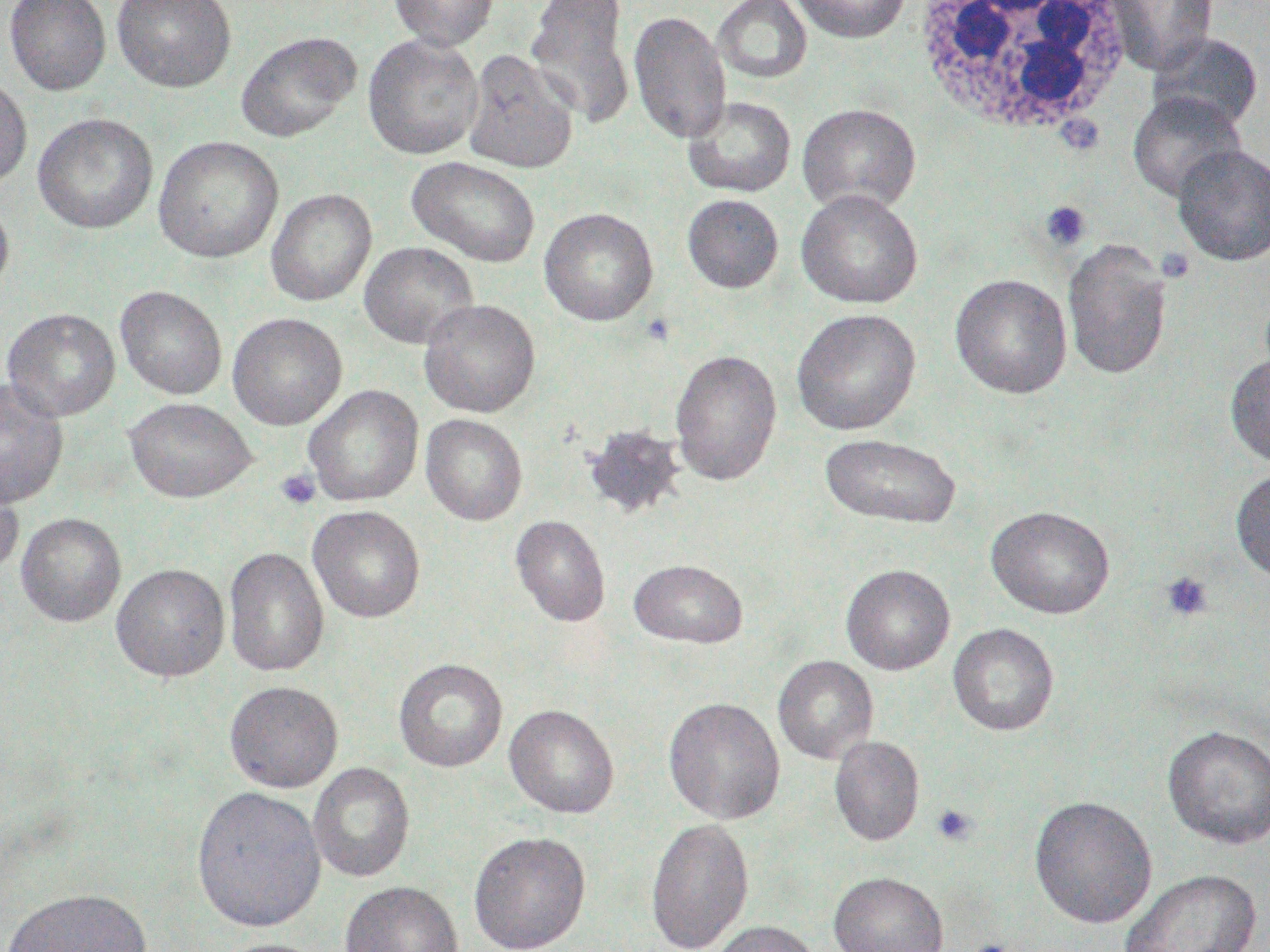 Acanthocyte